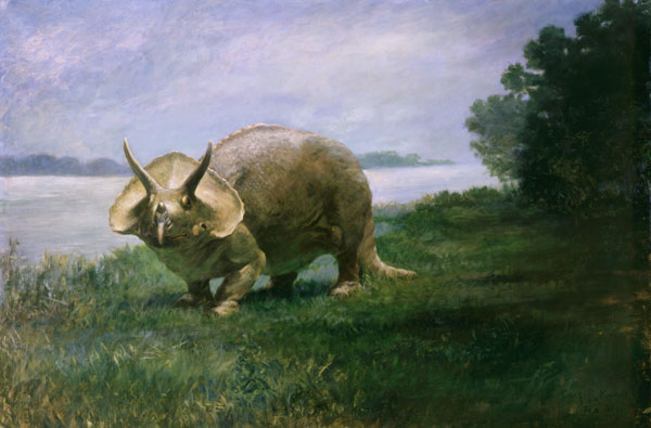 Triceratops, Smithsonian Museum.